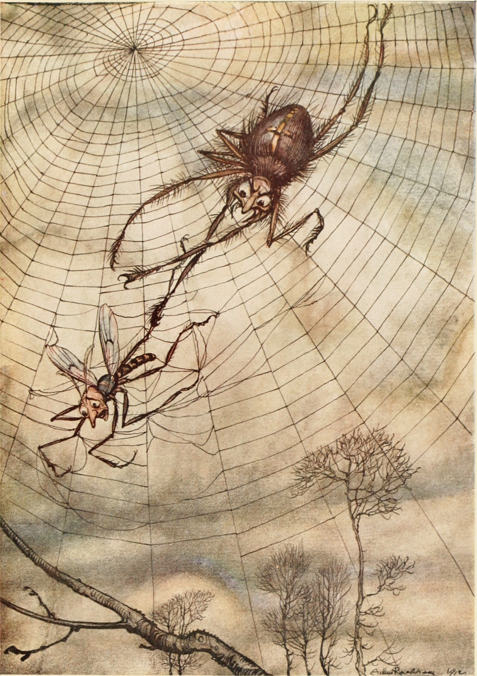 Title: Aesop's fables Year: 1912 (1910s) Authors: Aesop Vernon Jones, V. S. (Vernon Stanley) Rackham, Arthur, 1867-1939, ill Subjects: Fables Publisher: London : Heinemann New York : Doubleday, Page Text Appearing Before Image: THE GNAT AND THE LION A GNAT once went up to a Lion and said, ** I am not*^^ in the least afraid of you : I dont even allow thatyou are a match for me in strength. What does yourstrength amount to after all ? That you can scratch withyour claws and bite with your teeth—just like a womanin a temper—and nothing more. But Im strongerthan you : if you dont beheve it, let us fight and see.*So saying, the Gnat sounded his horn, and darted inand bit the Lion on the nose. When the Lion felt thesting, in his haste to crush him he scratched his nosebadly, and made it bleed, but failed altogether to hurt the198 THE GNAT AND THE LION Text Appearing After Image: Gnat, which buzzed off in triumph, elated by its victory.Presently, however, it got entangled in a spiders web,and was caught and eaten by the spider, thus falling aprey to an insignificant insect after having triumphedover the King of the Beasts. THE FARMER AND HIS DOGS A FARMER was snowed up in his farmstead by a severe^^^^ storm, and was unable to go out and procure pro-visions for himself and his family. So he first killedhis sheep and used them for food ; then, as the stormstill continued, he killed his goats ; and, last of all, asthe weather showed no signs of improving, he was com-pelled to kill his oxen and eat them. When his Dogssav/ the various animals being killed and eaten in turn,they said to one another, We had better get out of thisor we shall be the next to go! THE EAGLE AND THE FOX A N Eagle and a Fox became great friends and deter- mined to live near one another : they thought that the more they saw of each other the better friends they would be. So the Eagle built a